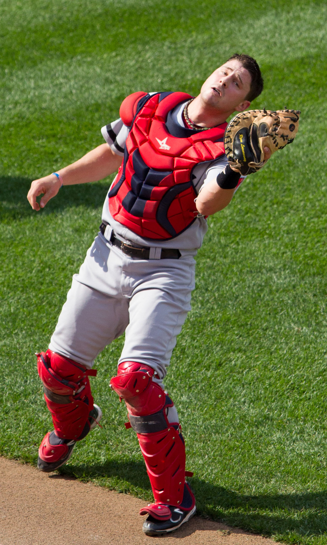 Boston Red Sox at Baltimore Orioles September 30, 2012